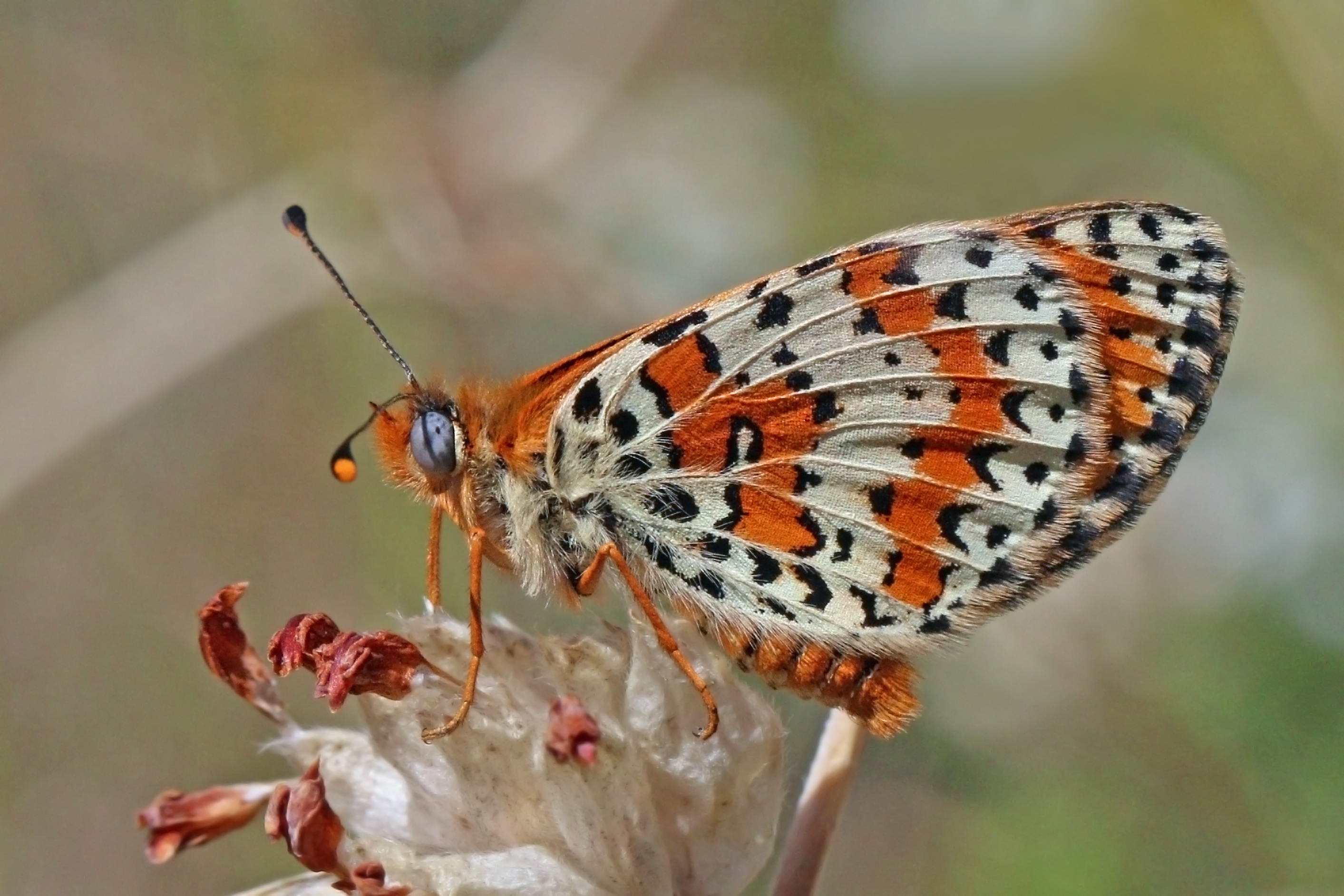 Spotted fritillary (Melitaea didyma), Galichica National Park, Republic of Macedonia (now North Macedonia)